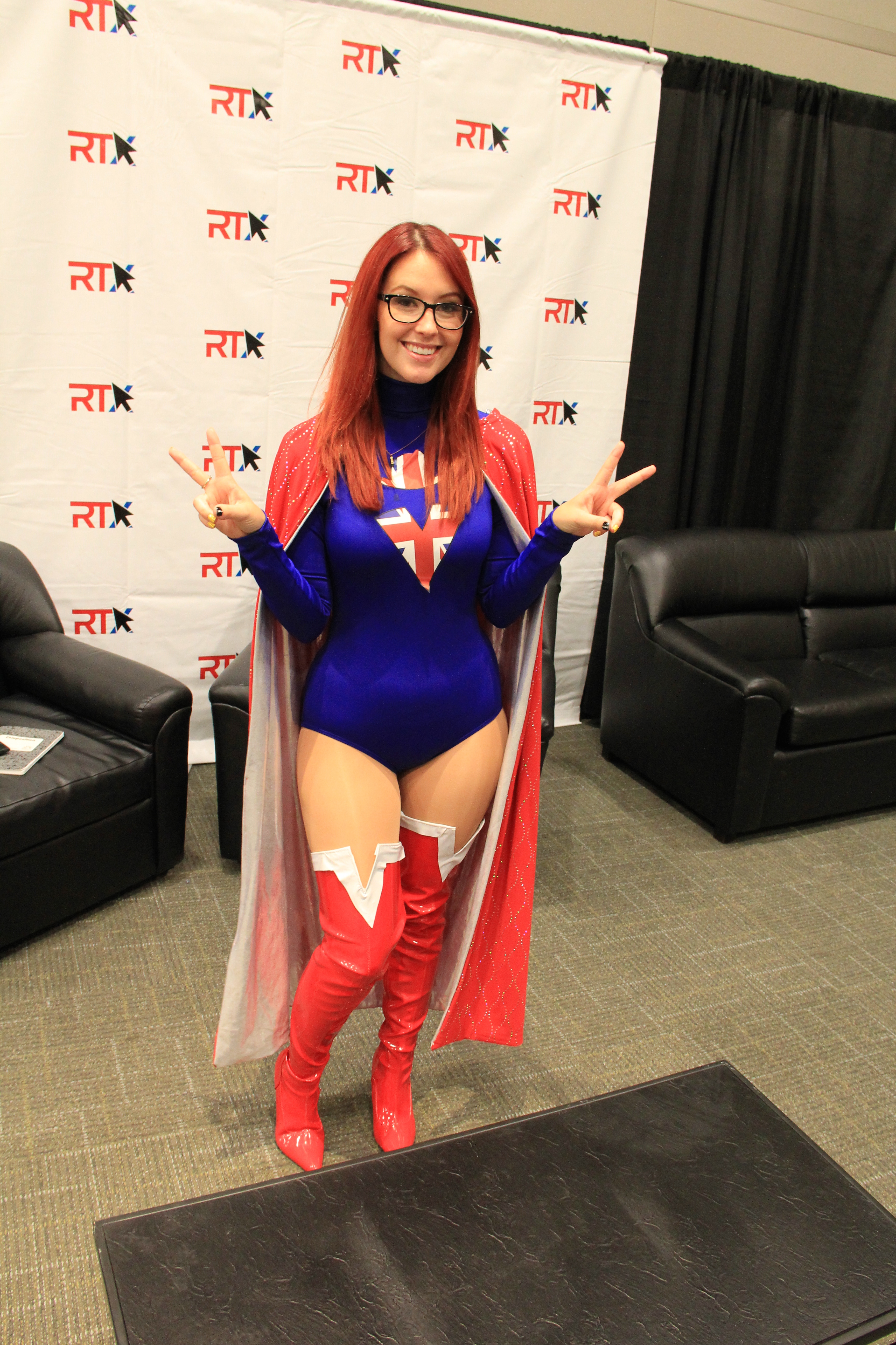 Meg Turney cosplaying Vav from X-Ray and Vav. Taken at RTX 2014.